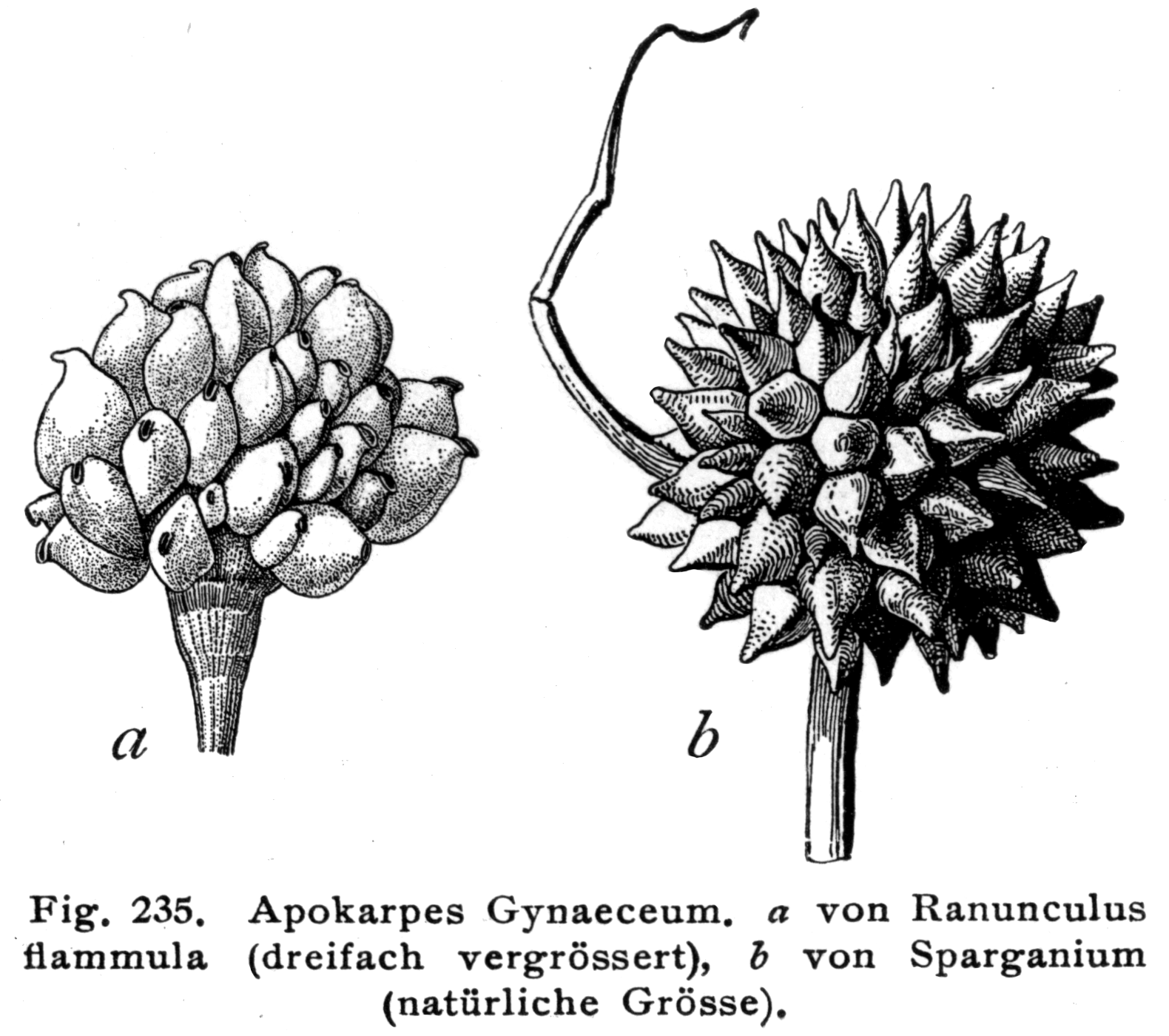 Figure 235 from Hegi, G.: Illustrierte Flora von Mittel-Europa, p. 127. Caption: Fig. 235 Apocarpous gynoeceum a of Ranunculus flammula (three-times enlarged), b of Sparganium (natural size).